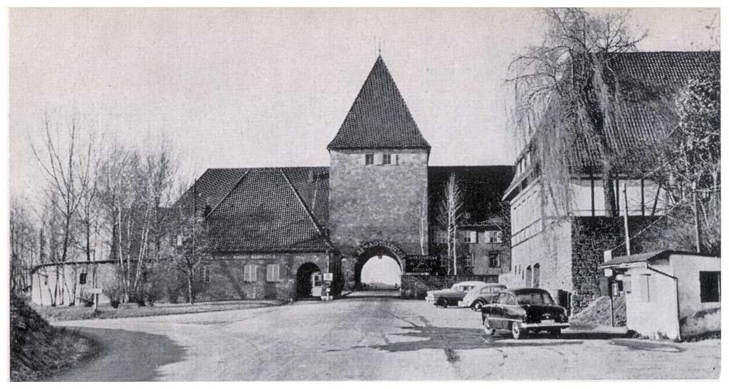 Flak-Kaserne in Zirndorf later Pinder Barracks